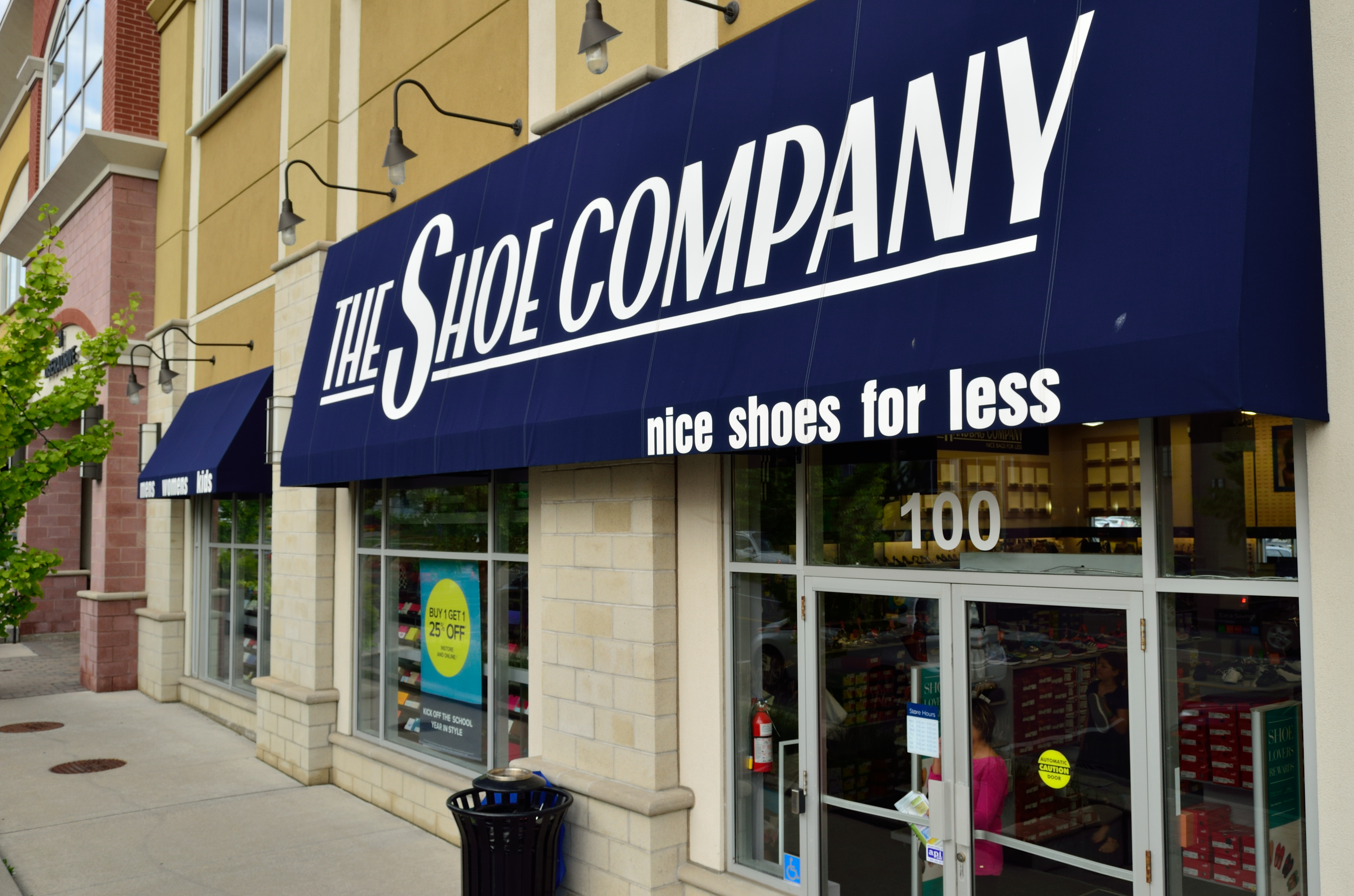 The Shoe Company - Address: 31 Disera Drive, Thornhill, ON L4J 0A7